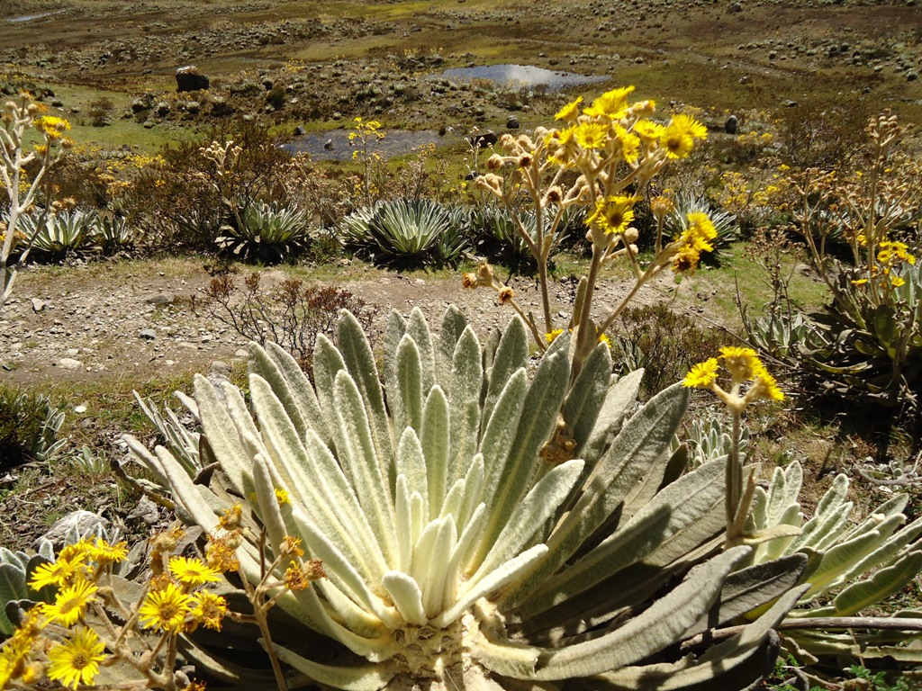 Flora del páramo.